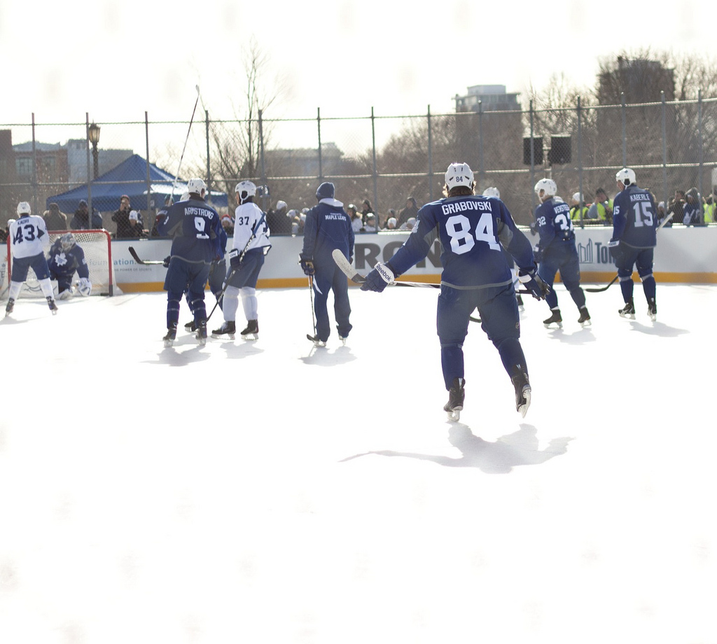 Toronto Maple Leafs practice at Trinity Bellwoods Park in Toronto, Ontario, Canada. The Leafs occasionally hold practices at outdoor public rinks in Toronto, in order to help secure private sponsorship of rink refurbishment projects.